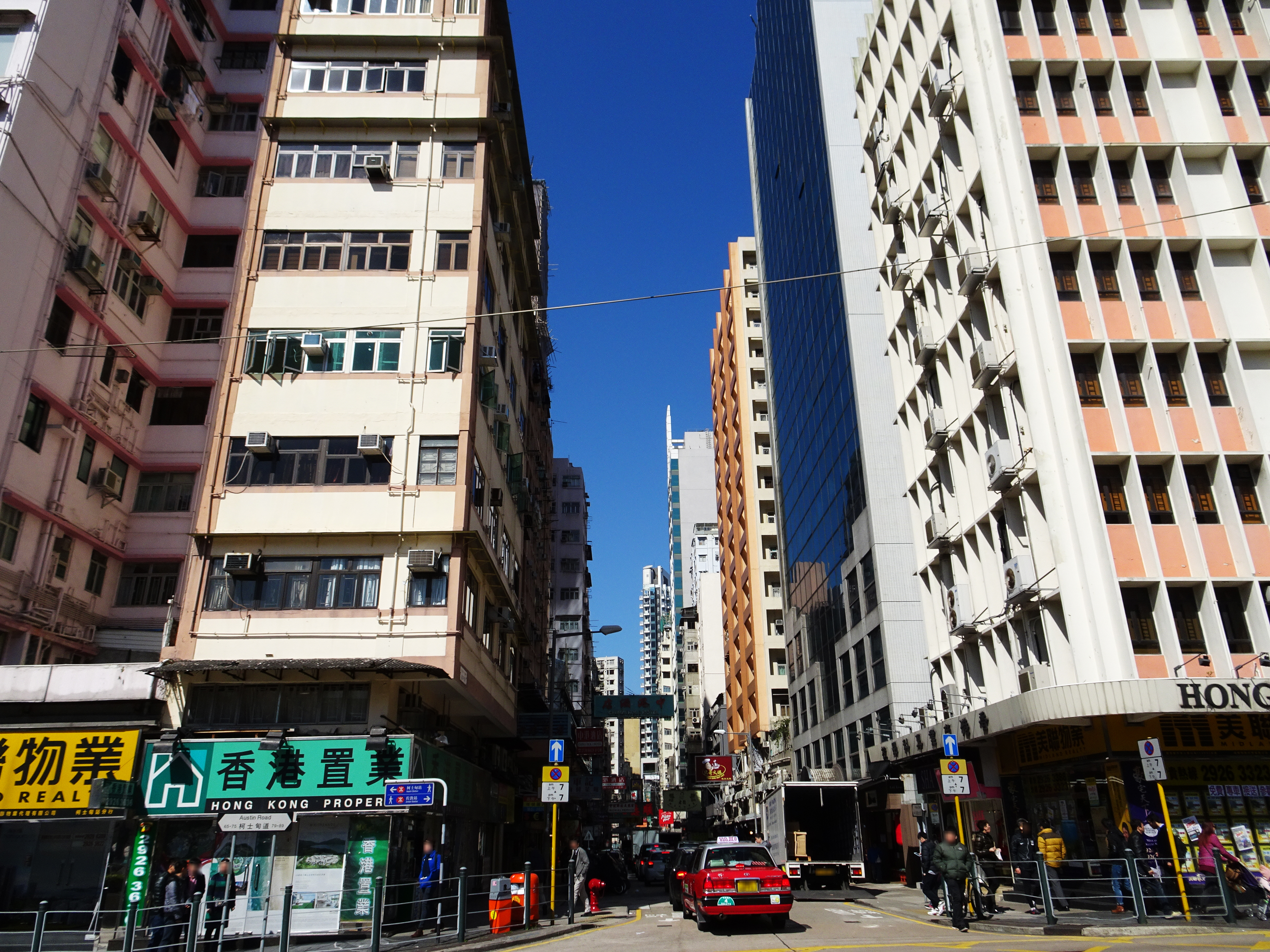 Parkes Street in Jordan, Hong Kong.